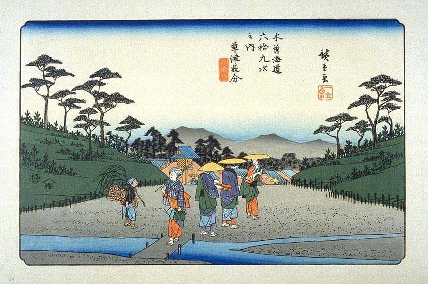 Kusatsu on the Kisokaido, ukiyo-e prints by Hiroshige